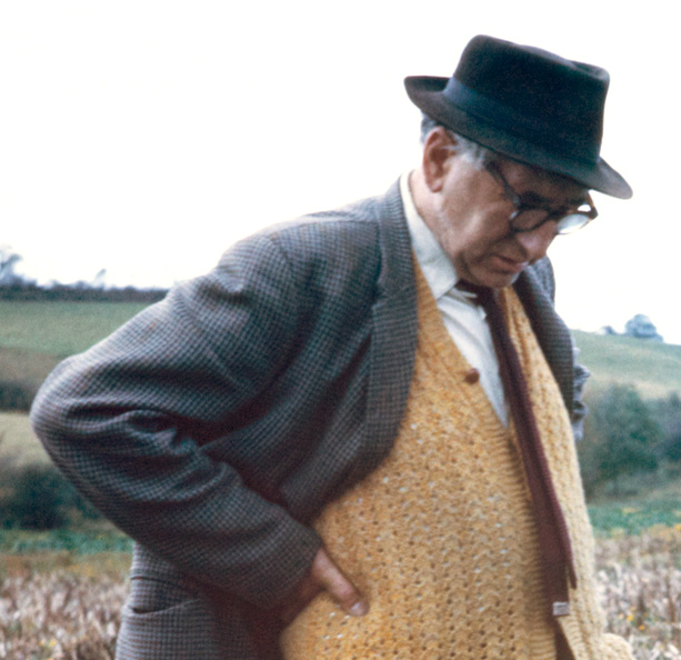 … pondering the Stony Grey Soil of Monaghan at his native Inniskeen. NLI Ref.: WIL pk5[2]